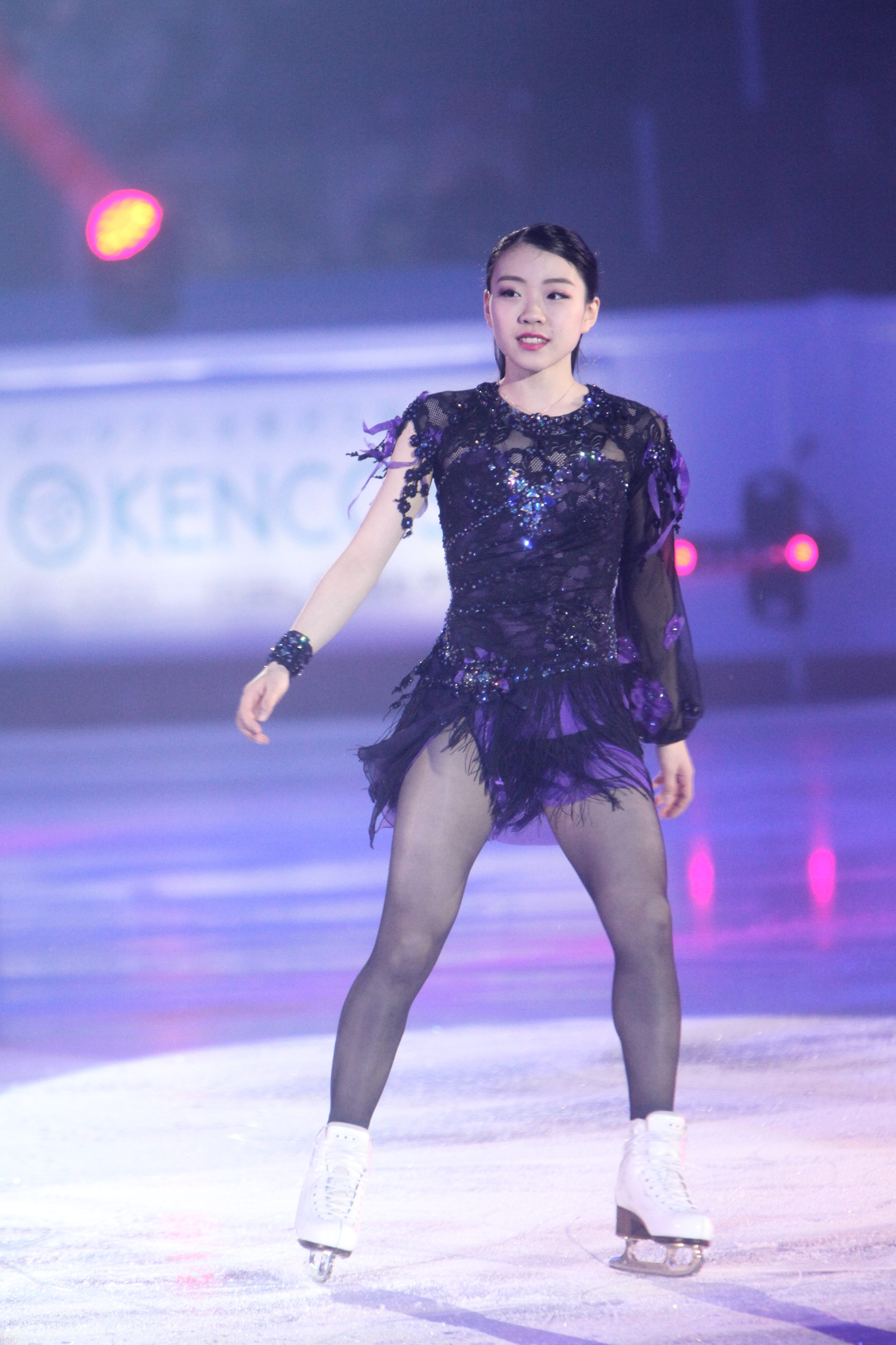 Rika Kihira during the gala at the Internationaux de France de Patinage 2018.